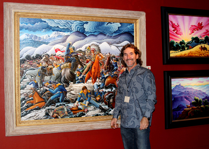 Photo of Kim Douglas Wiggins with his painting, Fetterman Massacre taken on 7/6/12 by the artist at the Western Regionalism Show in Manitou Galleries, 123 W. Palace, Santa Fe, NM 87501